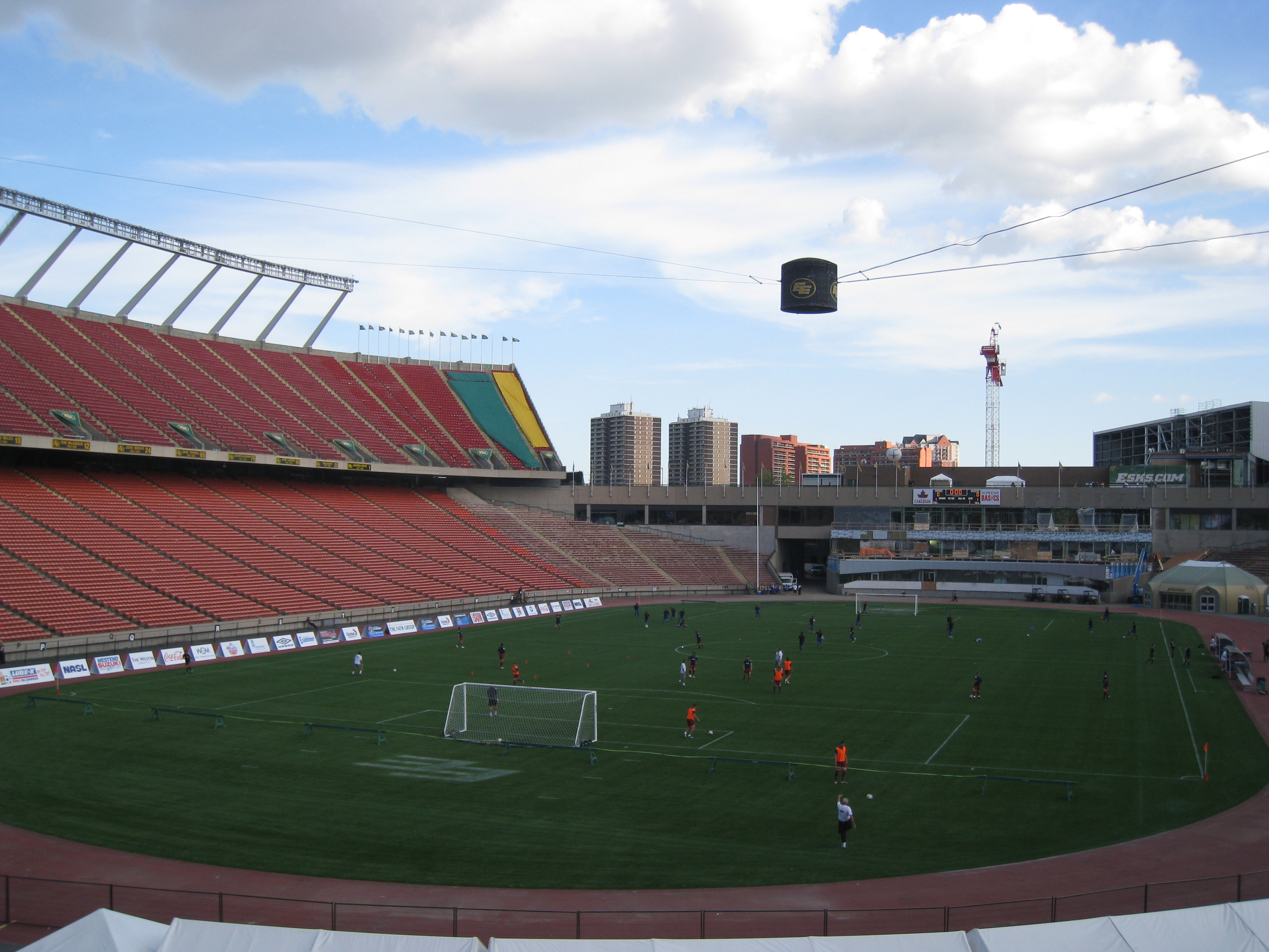 Commonwealth Stadium, Edmonton, Alberta